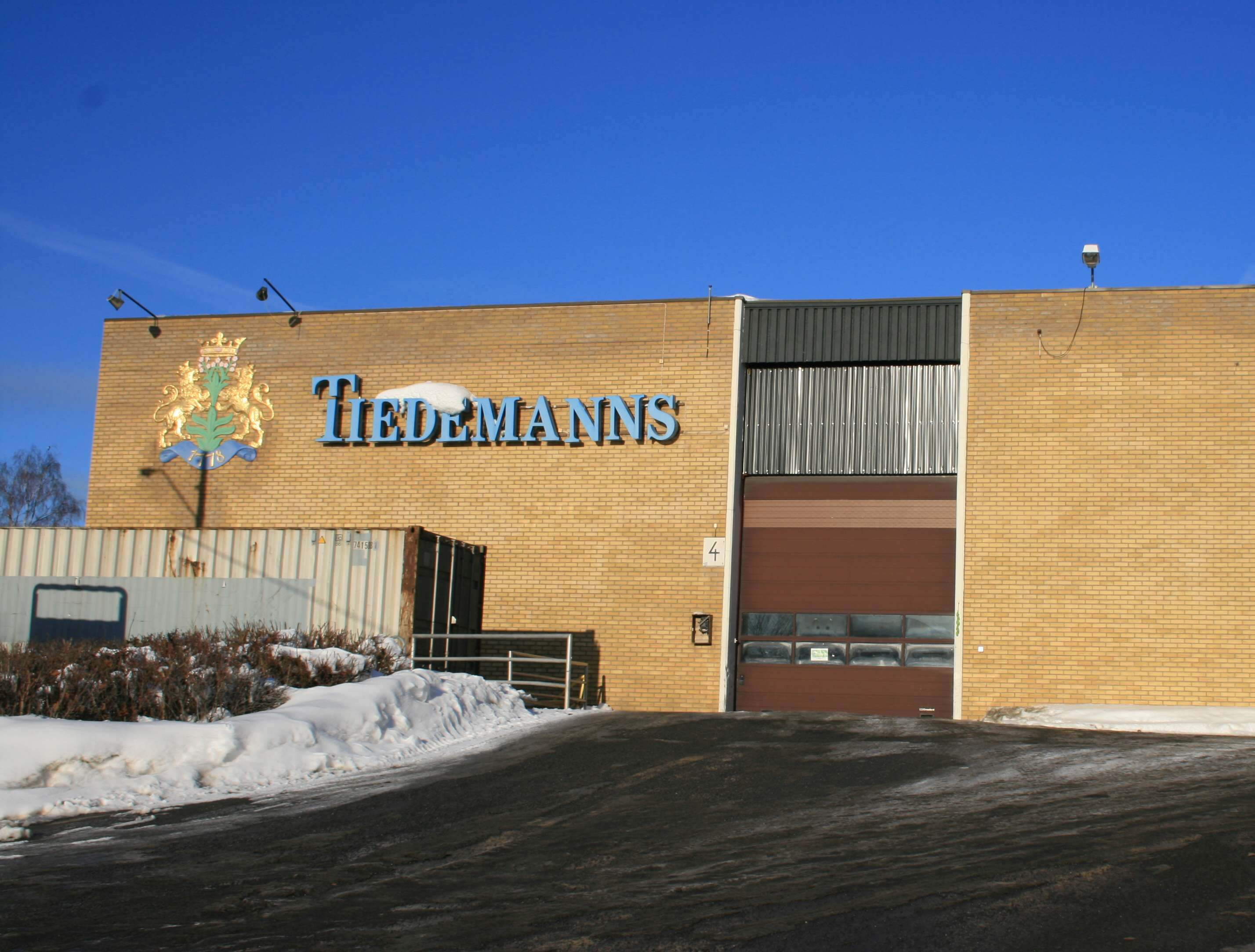 Part of the Tiedemann tobacco factory in Oslo.